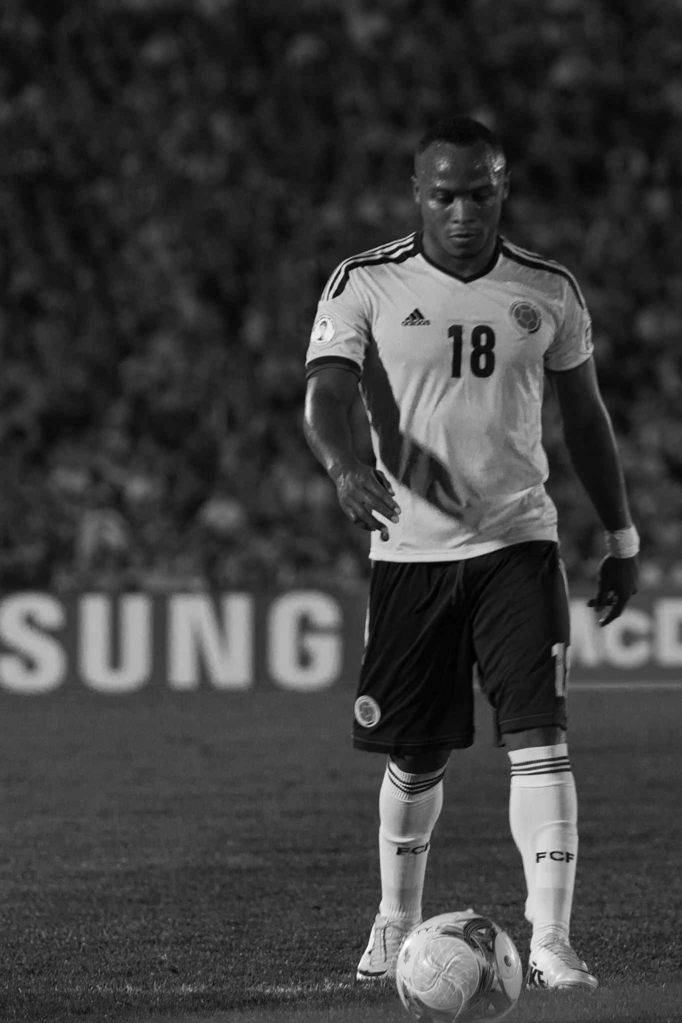 Juan Camilo Zúñiga in World Cup qualifier against Uruguay on 10 September 2013.